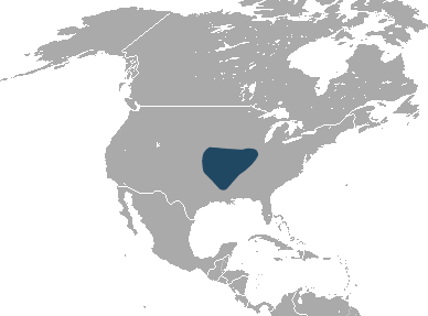 Elliot's Short-tailed Shrew (Blarina hylophaga) range